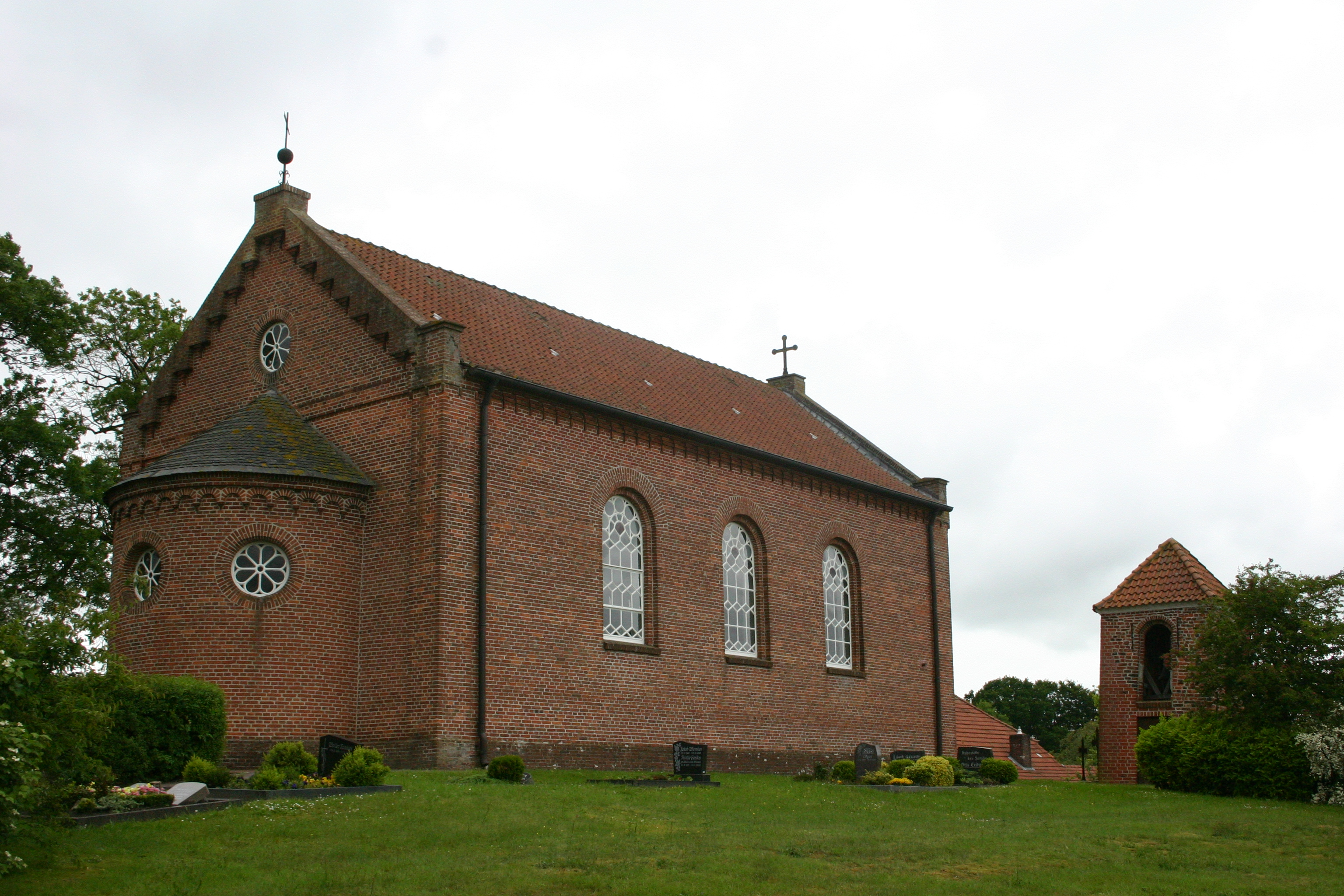 Historic church in Fulkum, district of Wittmund, East Frisia, Germany